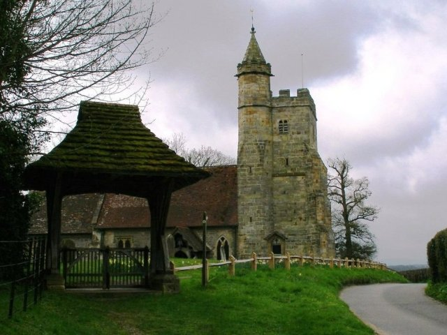 Parish church of St Michael and All Angels, Little Horsted, East Sussex, seen from the north